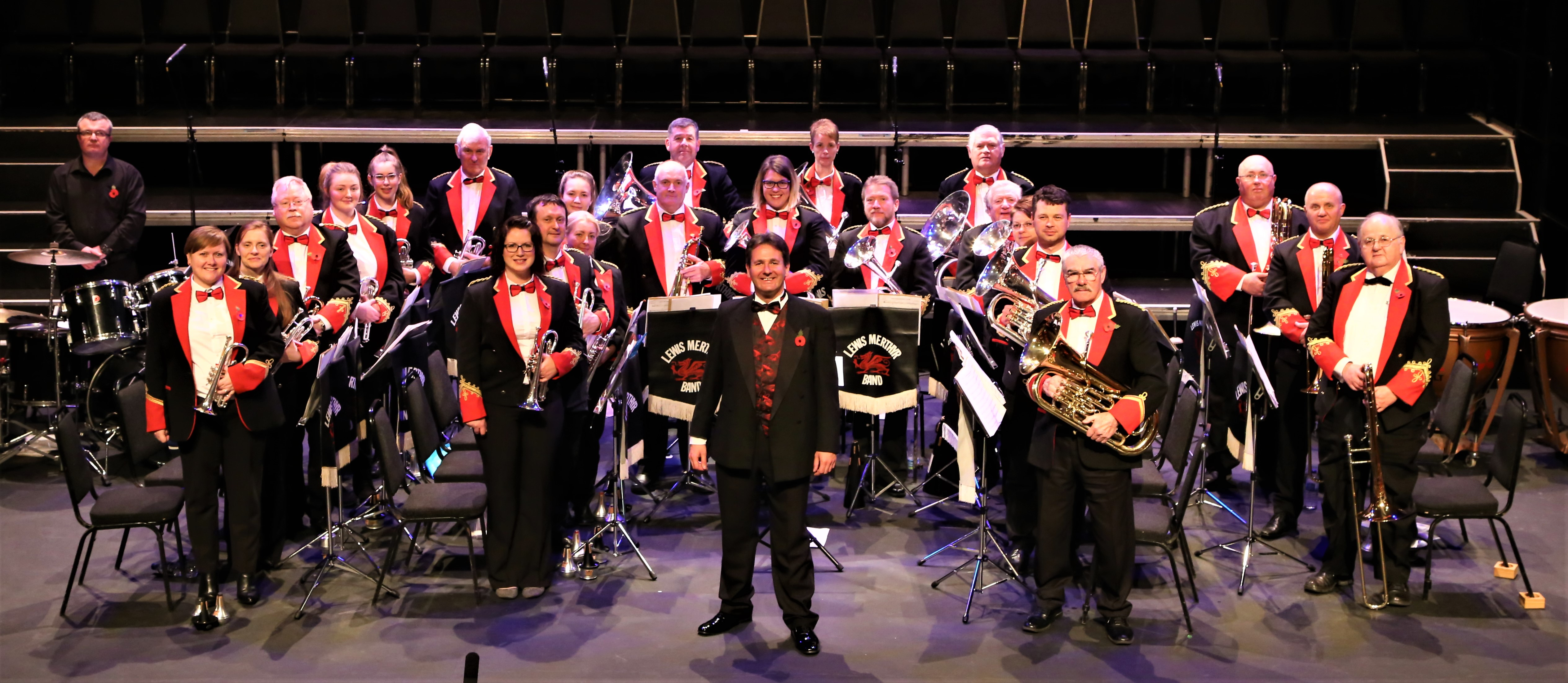 Lewis-Merthyr Brass Band